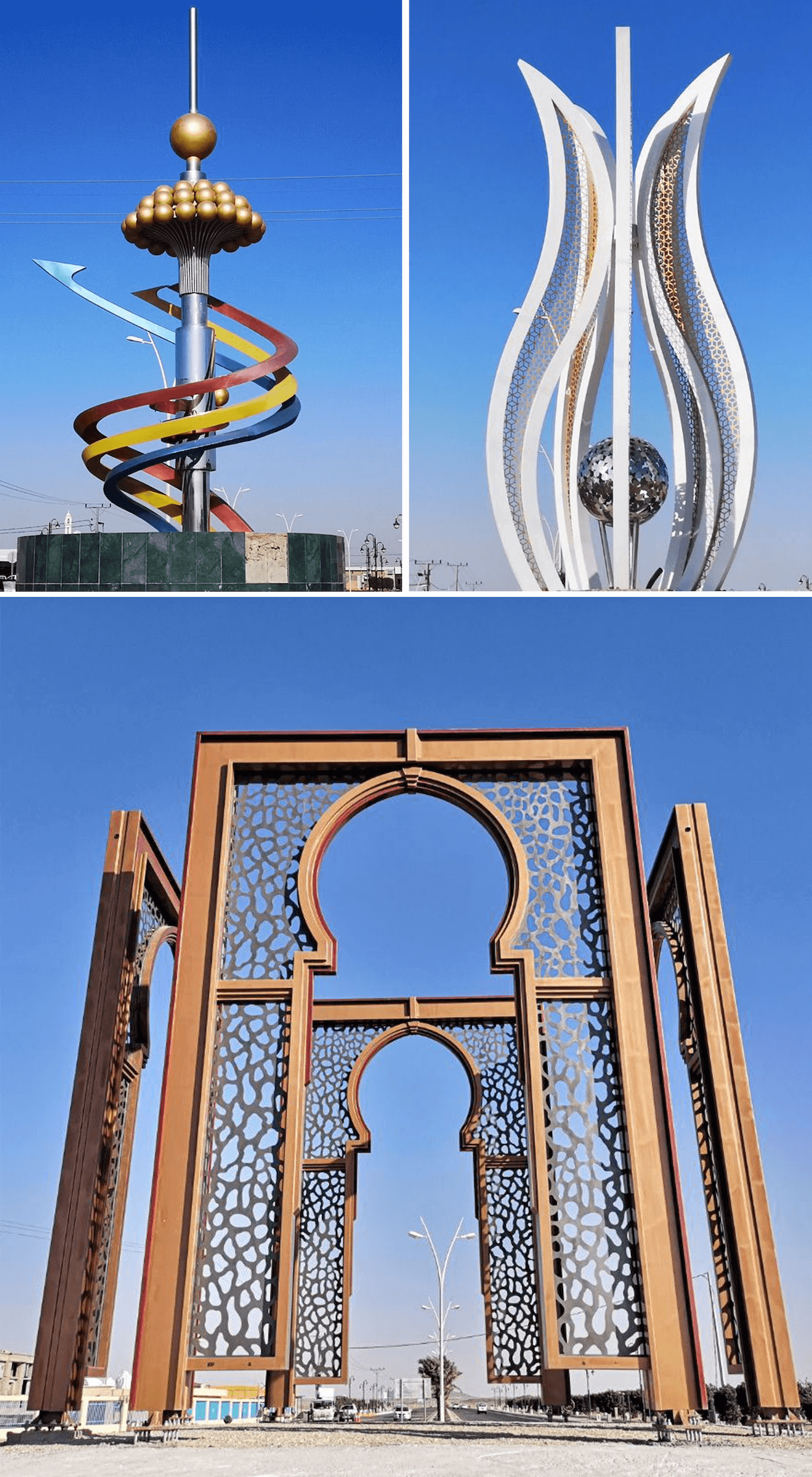 Clockwise from the top left: the roundabout in the center of the city; the gates in the city's entrance; and the roundabout in the southern part of the city.